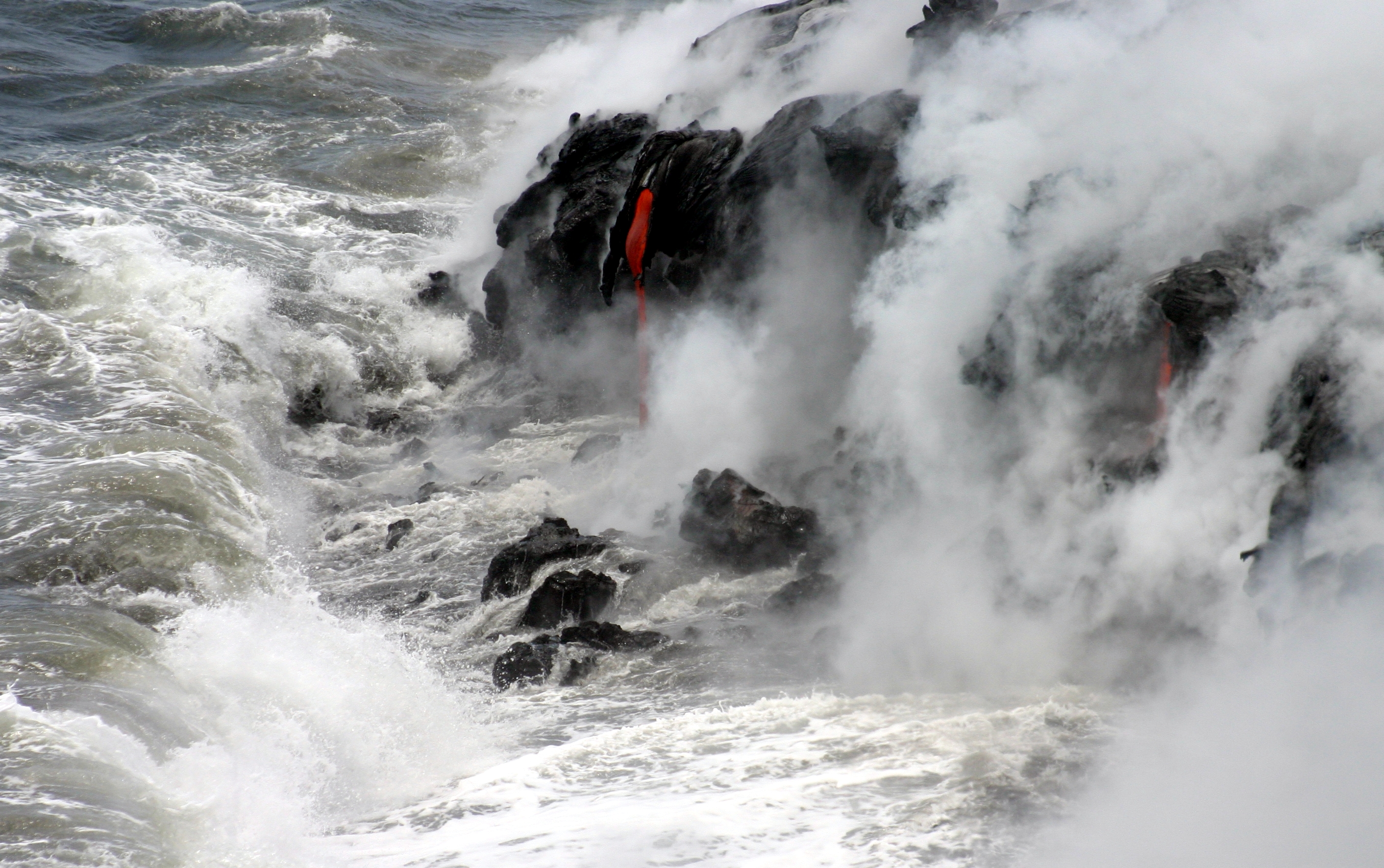 Pāhoehoe Lava is entering Pacific at The Big Island of Hawai,Hawaii Volcanoes National Park.